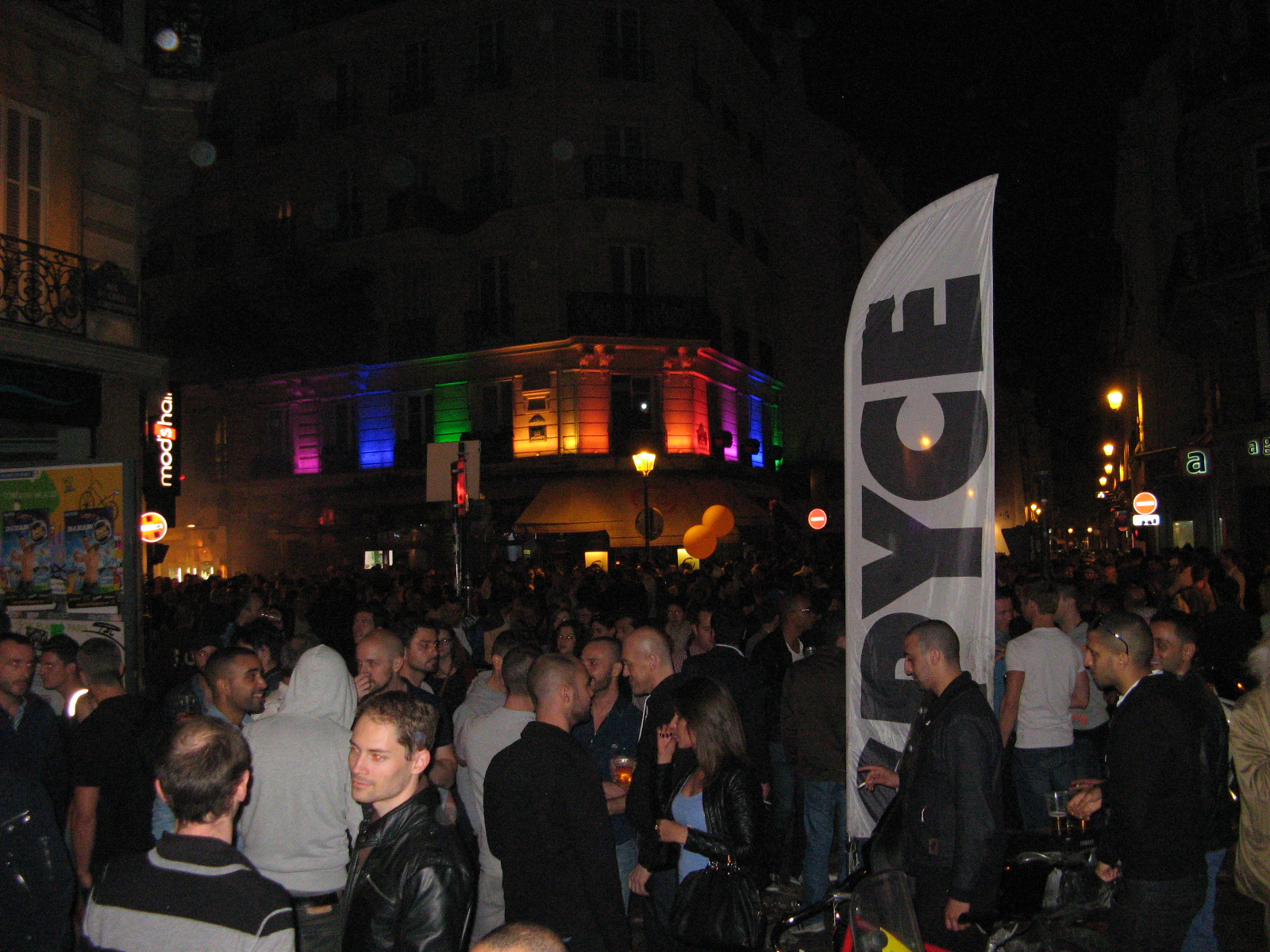 Rue des Archives/Rue Sainte-Croix de la Bretonnerie, Le Marais, Paris.